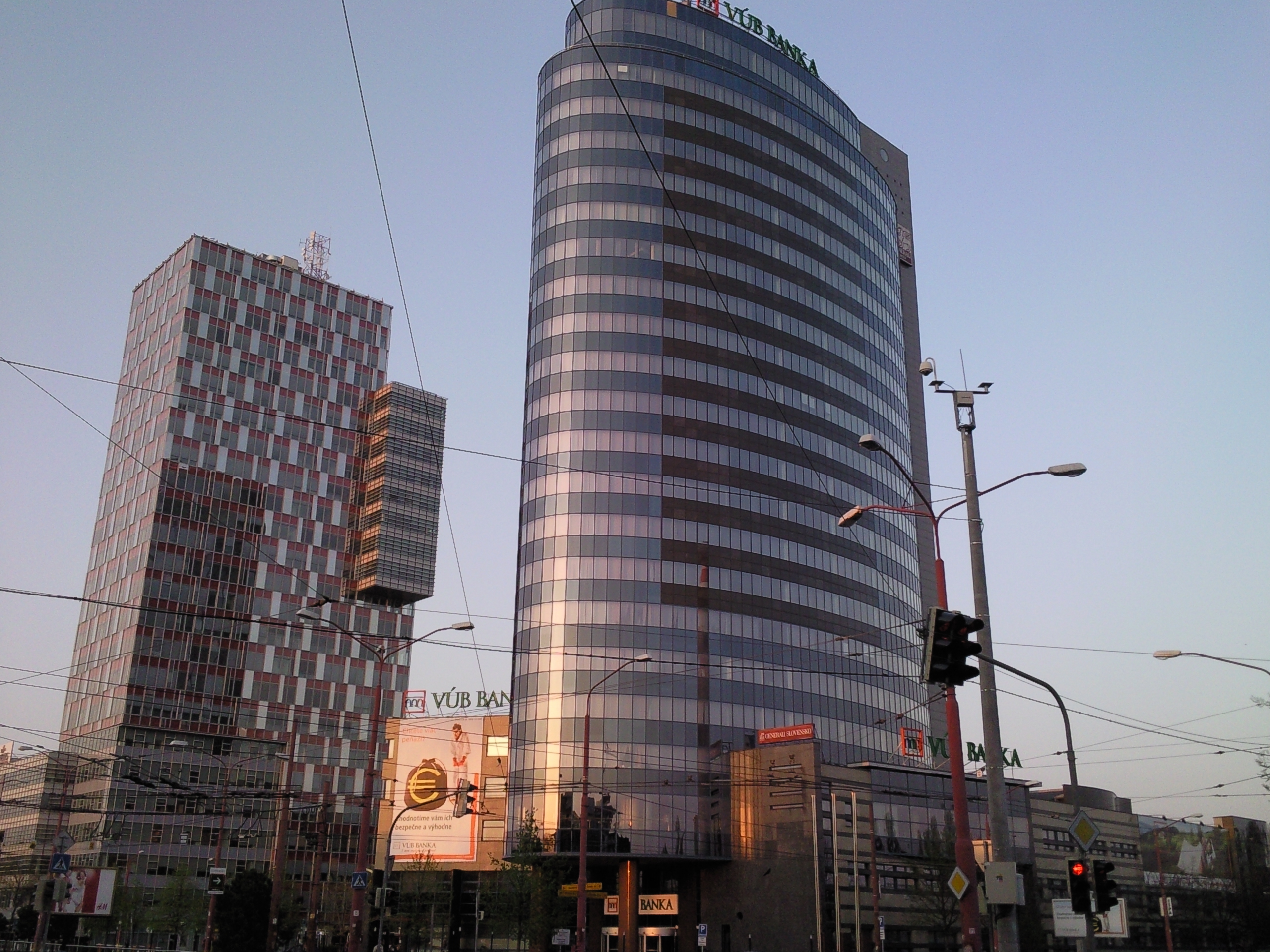 High-rises in Bratislava at Karadžičoca street